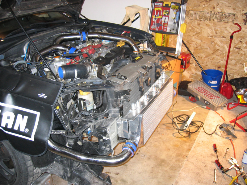 2004 Subaru WRX STI in the process of being fitted with a front mount intercooler.